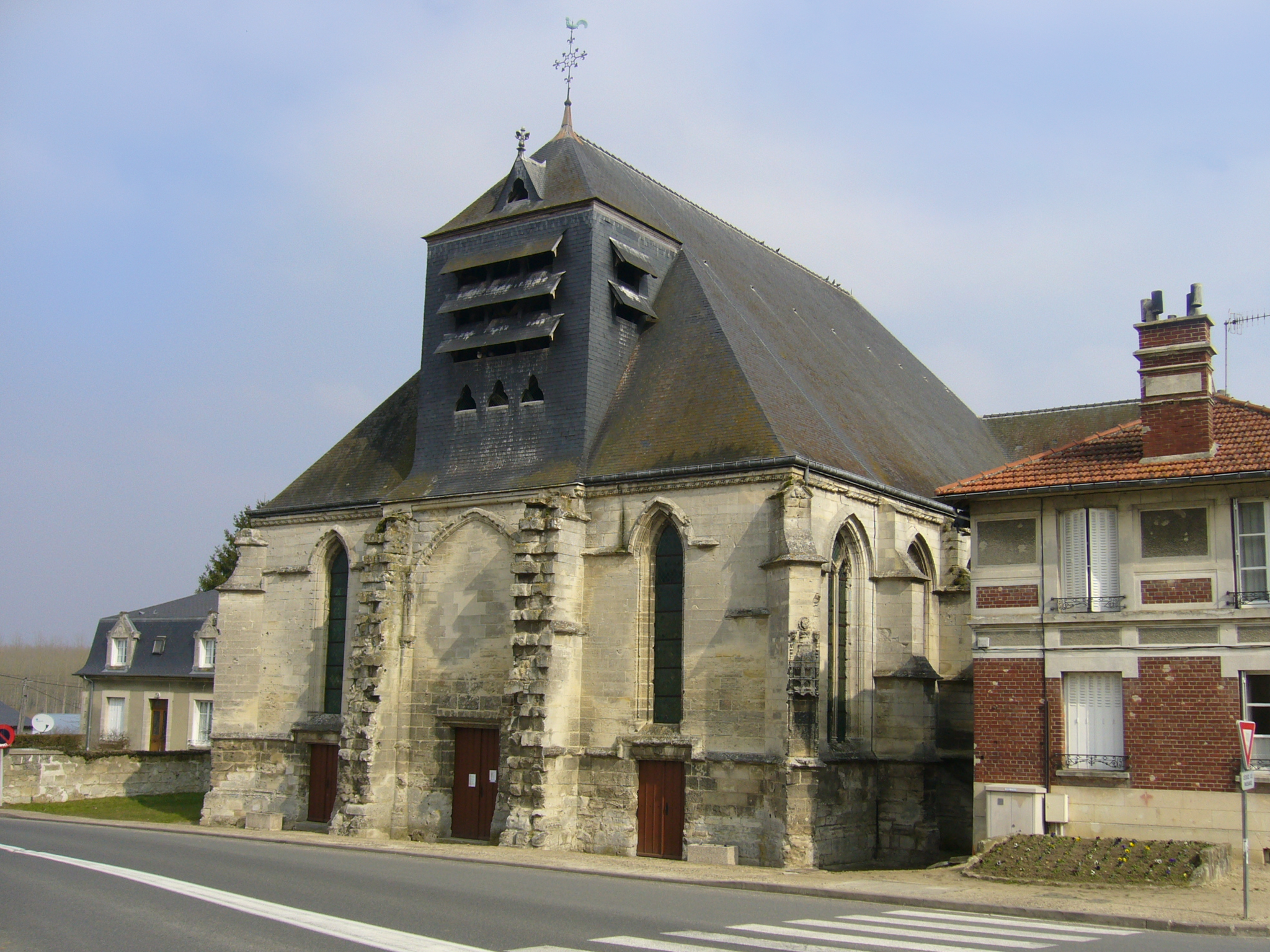 Guny's 16th century church.